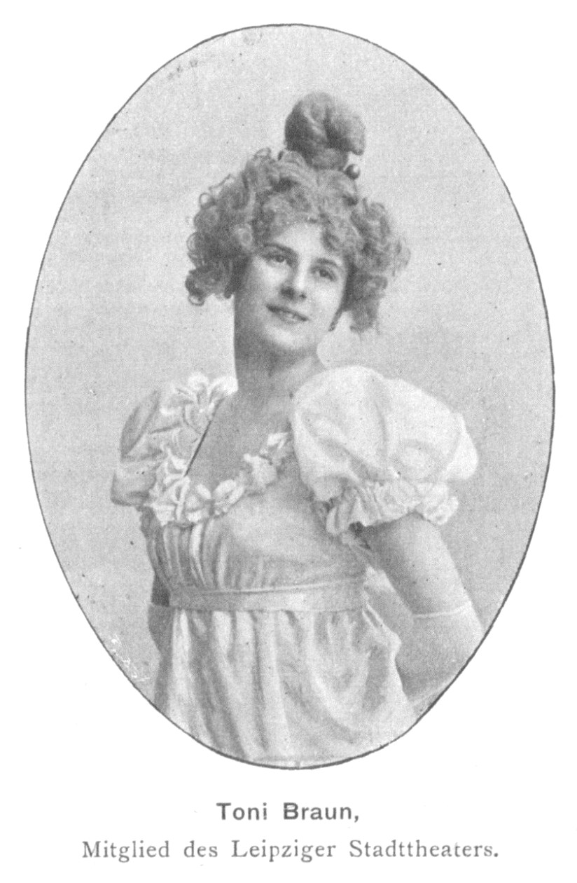 Portrait of Toni Braun (1879-1910), Austrian actress and singer.